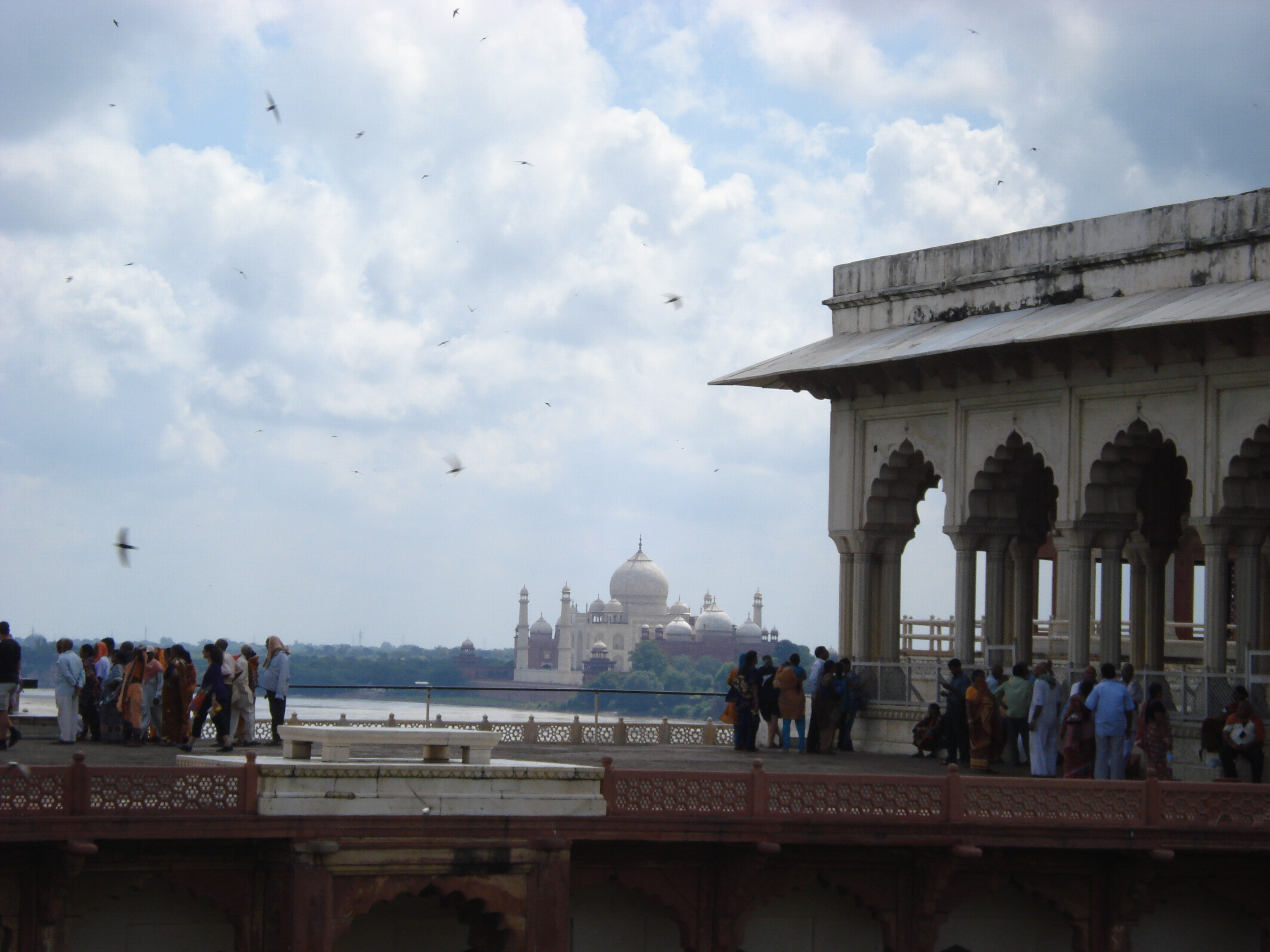 Persian in script tajmahal